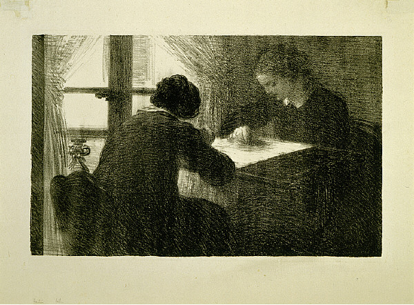 The Embroiderers, No. 2. Lithograph, 7 7/8 x 12 5/8 in. (20 x 32.1 cm) (image).